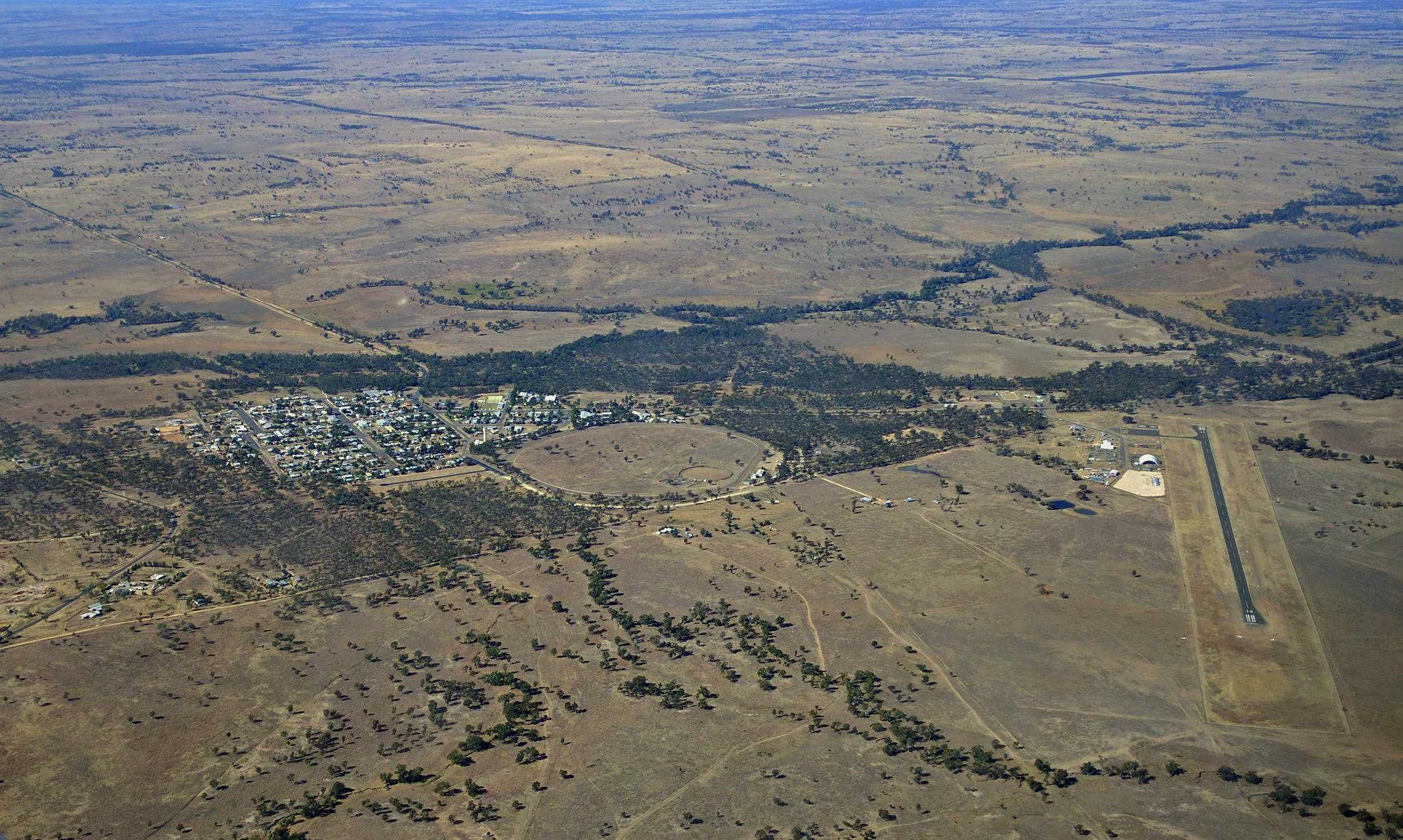 Looking south, from approximately 4,000 feet.